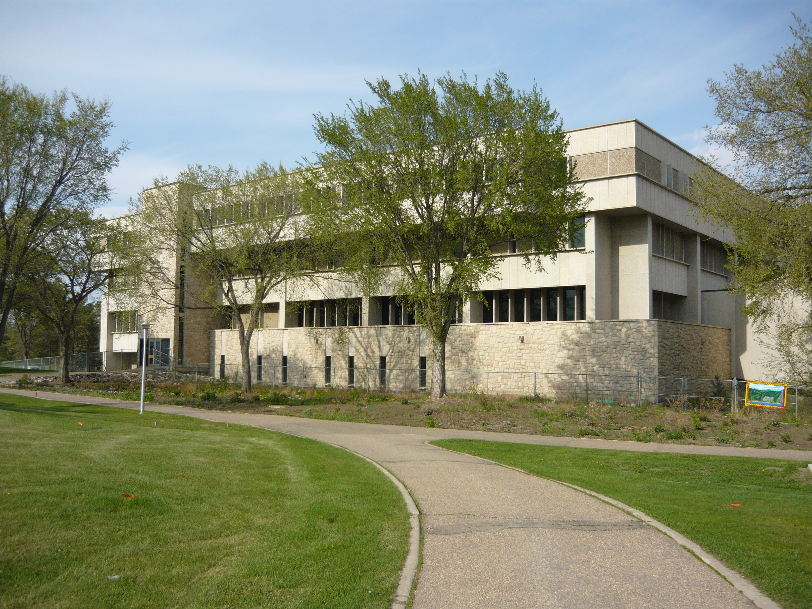 Education Building (College of Education), University of Saskatchewan, 28 Campus Drive, Saskatoon, Saskatchewan, Canada. Opened 1970. Architect: Webster Forrester Scott. Contractor: Burns and Dutton Construction.